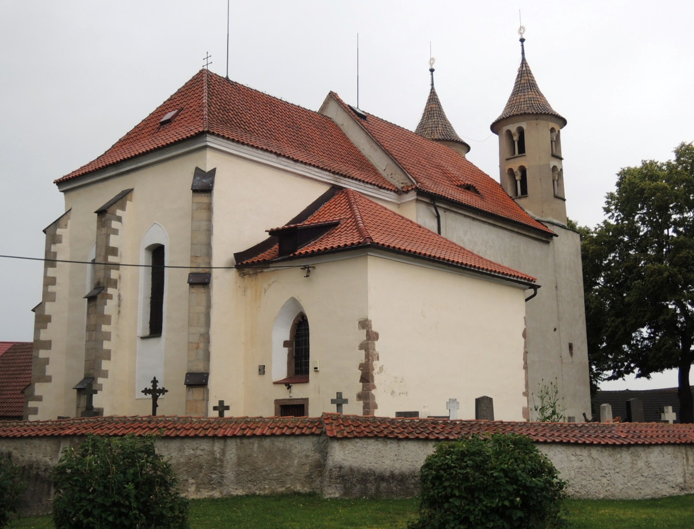 Church of Saint Bartholomew (Kondrac)